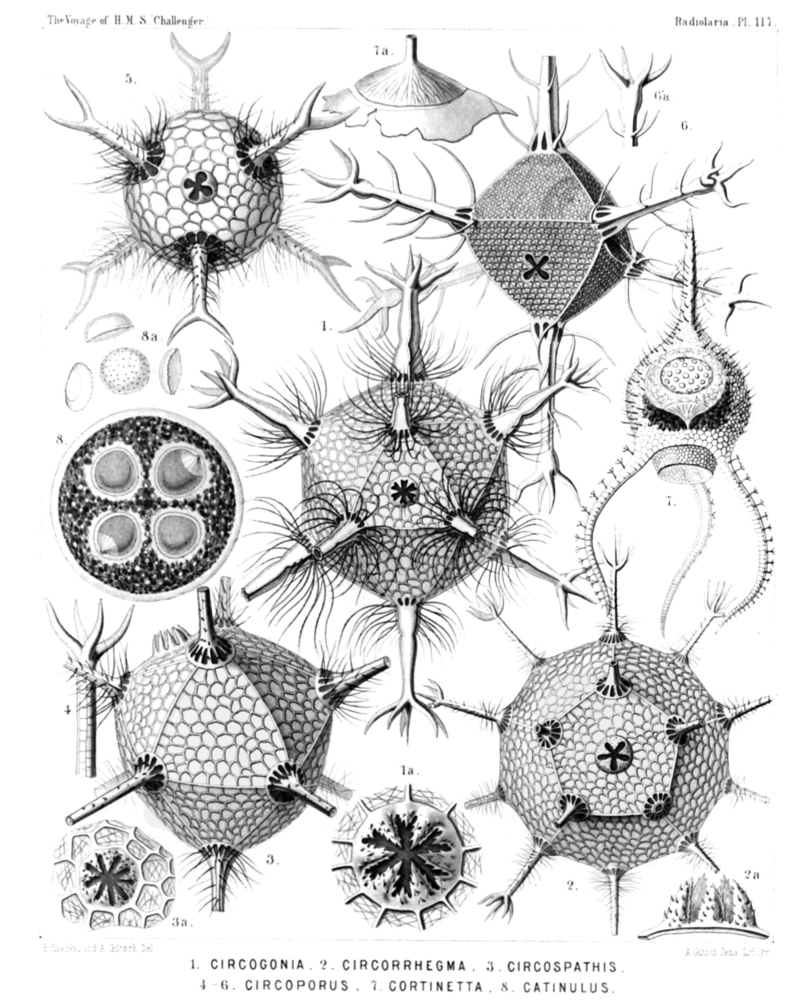 Illustration from Report on the Radiolaria collected by H.M.S. Challenger during the years 1873-1876. Part III. Original description follows: Plate 116. Medusettida et Circoporida.Diam.Fig. 1. Polypetta mammillata, n. sp.,×500In the upper part of the figure the dentate proboscis.Fig. 1a. Vertical section through the shell-wall, showing two of the hollow alveoles, opening on its inside,×1000Fig. 2. Polypetta tabulata, n. sp.,×500In the upper part of the figure the dentate proboscis.Fig. 2a. A piece of the shell, seen from the surface, with the triangular plates,×1000Fig. 2b. Vertical section through the shell-wall, with an alveole,×1000Fig. 3. Circostephanus coronarius, n. sp.,×150The polyhedral shell exhibits in its wall the small tangential needles. The radial spines are partly broken off. The mouth of the shell, surrounded by eight short conical teeth, is visible on the left side of the figure.Fig. 3a. The mouth of the shell, seen in profile, with eight conical spinulate teeth,×400Fig. 3b. The base of a radial spine broken off, to show the corona of (five or six) basal pores,×400